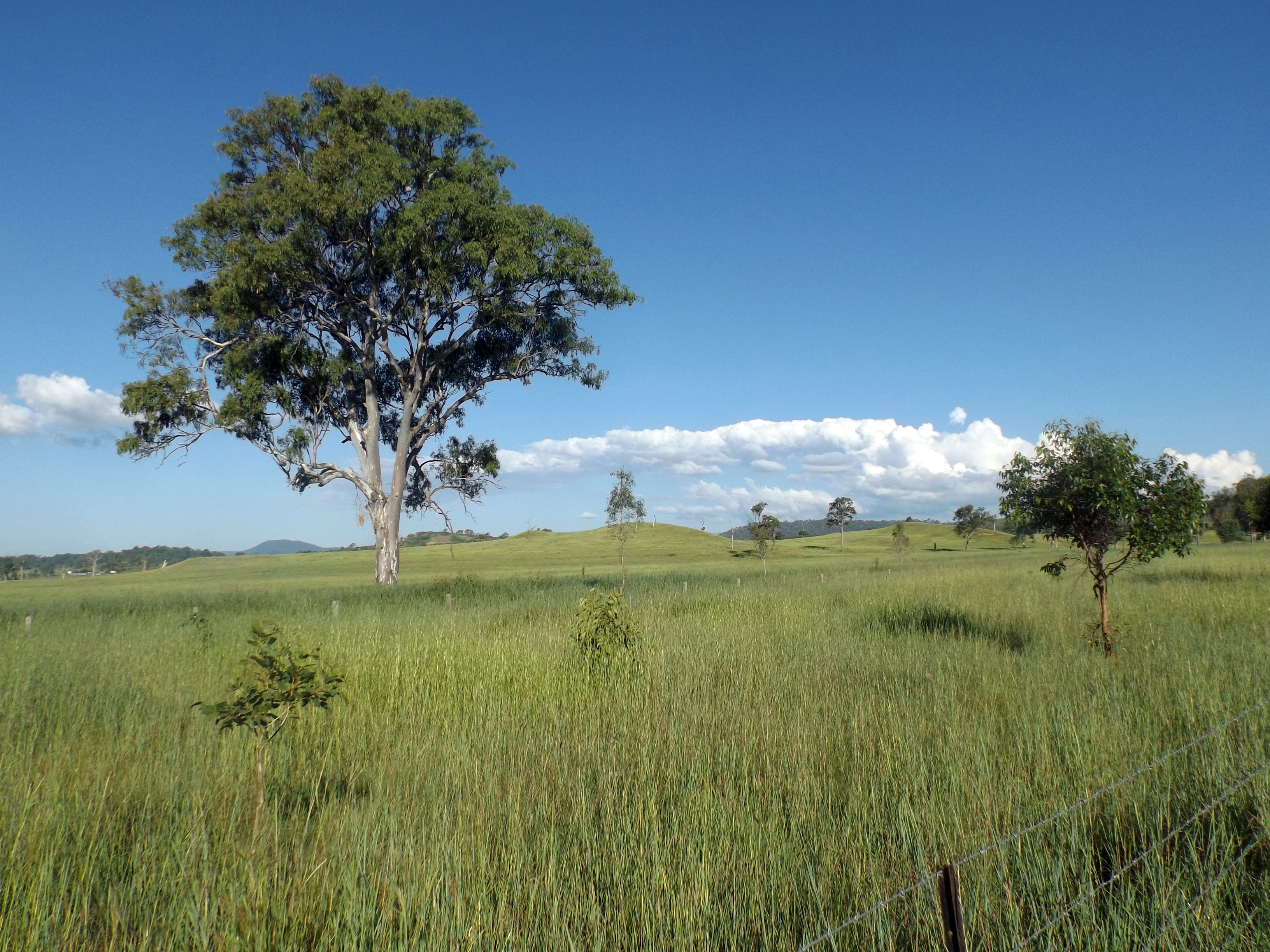 Photo of fields along Markwell Creek Road at Cryna, Scenic Rim Region, Queensland, Australia.